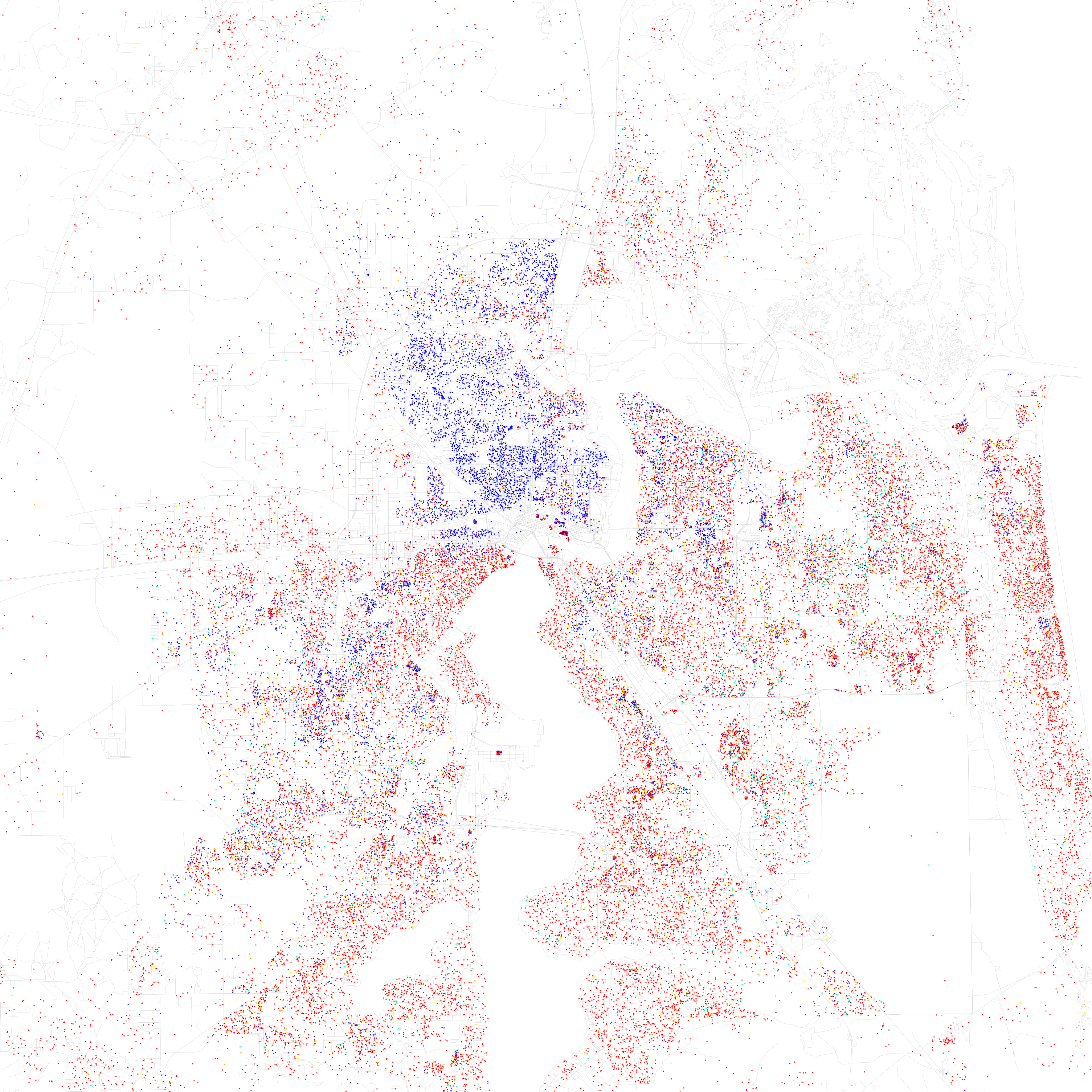 Maps of racial and ethnic divisions in US cities, inspired by Bill Rankin's map of Chicago, updated for Census 2010. Red is White, Blue is Black, Green is Asian, Orange is Hispanic, Yellow is Other, and each dot is 25 residents. Data from Census 2010. Base map © OpenStreetMap, CC-BY-SA